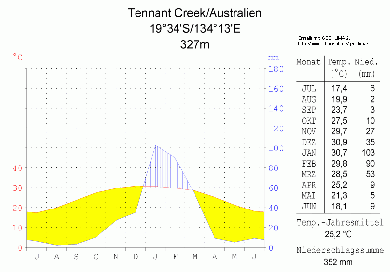 climate chart in the format by Walther and Lieth, metric, °Celsisus and millimeters, made with Geoklima 2.1